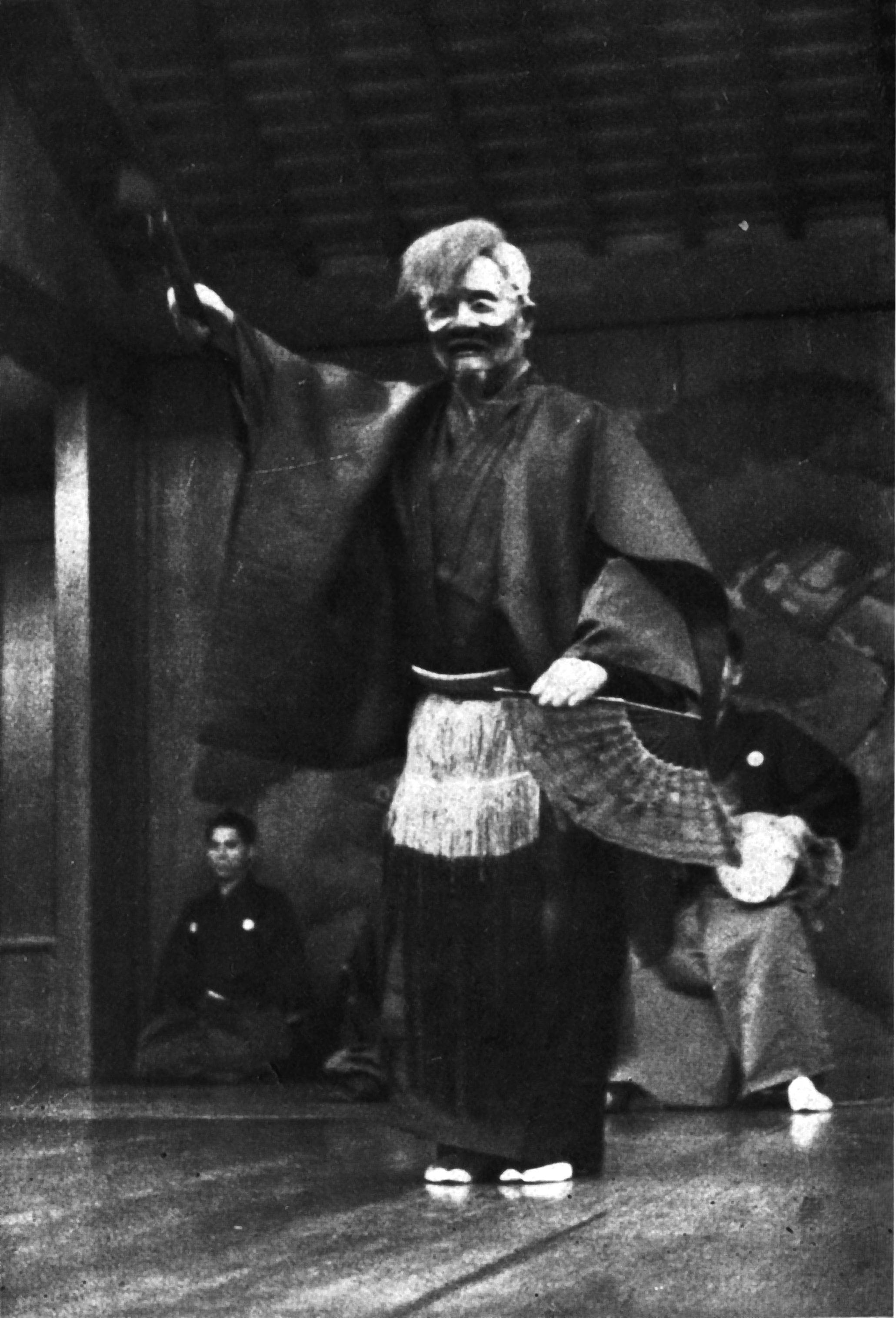 stage photo: Noh play Ukai, NOGUCHI Kanesuke